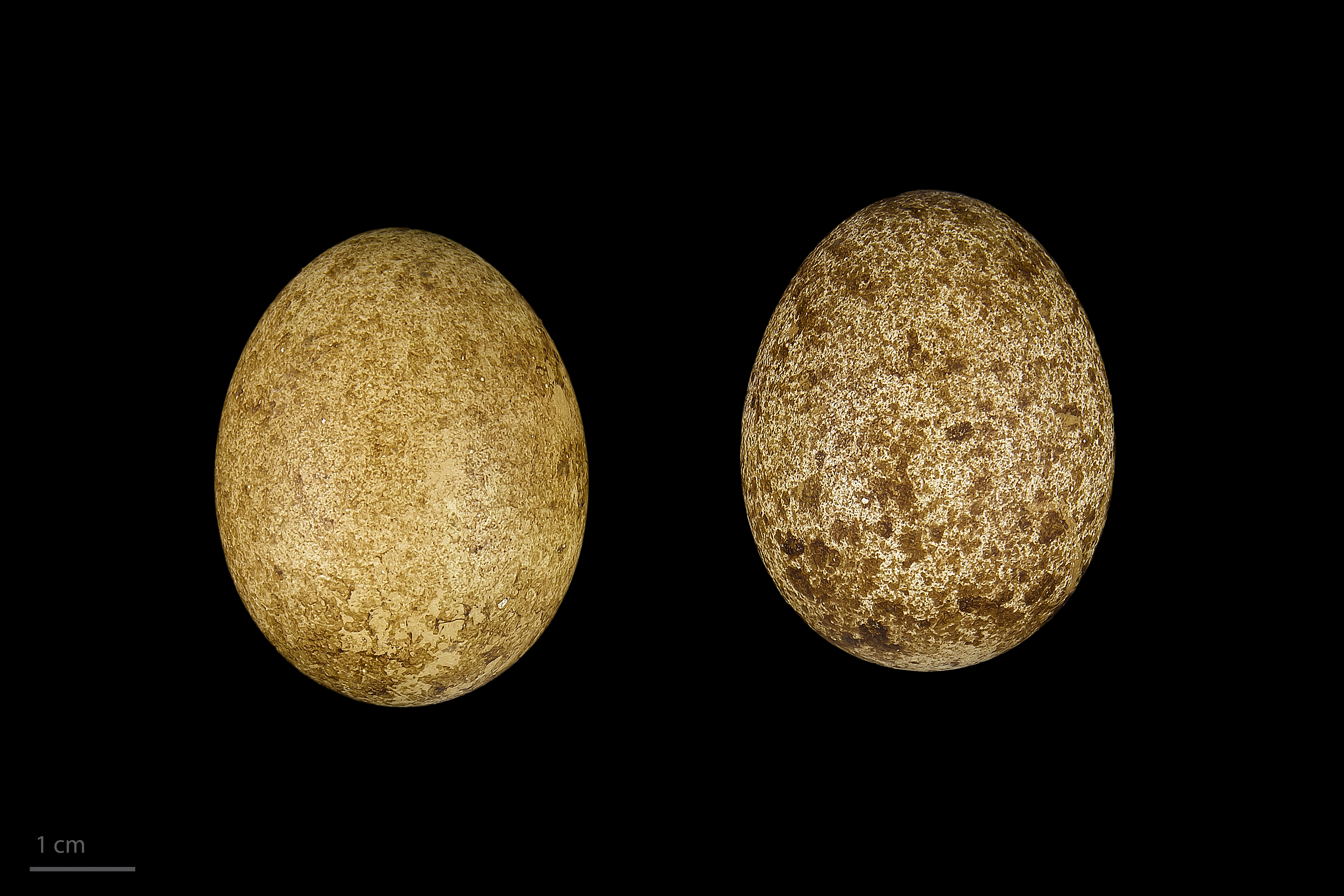 Eggs of Falco subbuteo Two specimens of the same spawn ; collection of Jacques Perrin de Brichambaut.